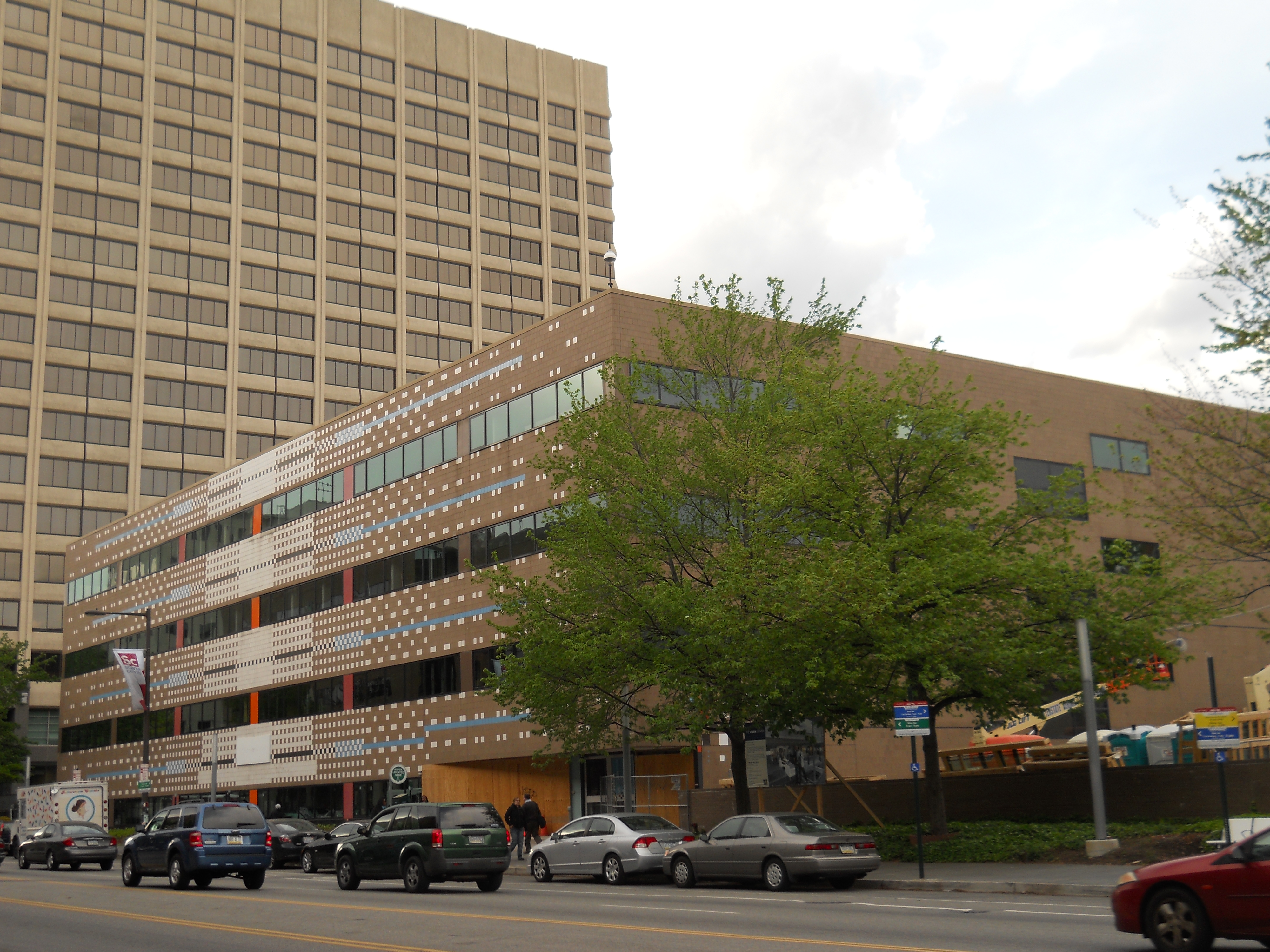 Former building of ISI on Market St, Philadelphia, now Drexel University.